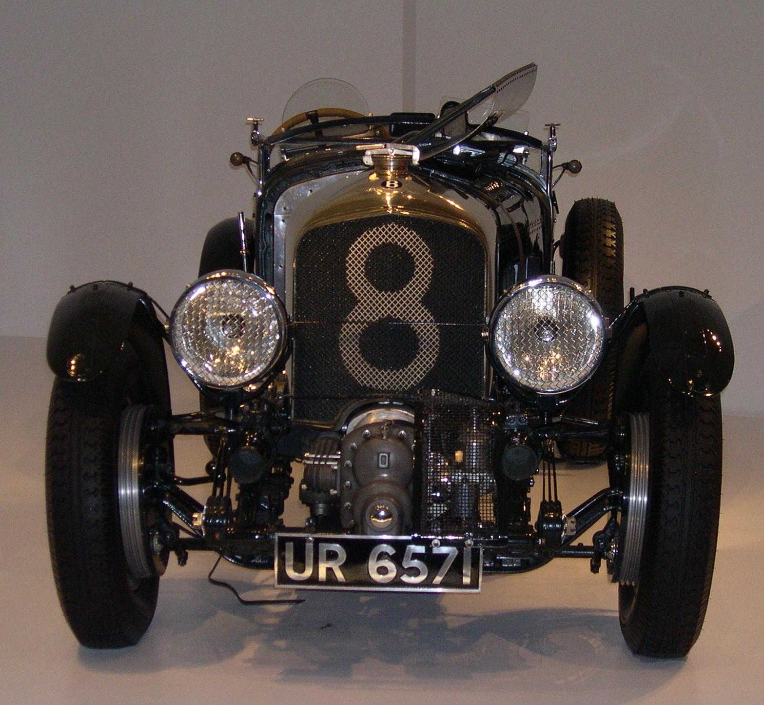 1939 "Blower" Bentley From the Ralph Lauren collection on display at the Boston Museum of Fine Arts. Photo taken in 2005.